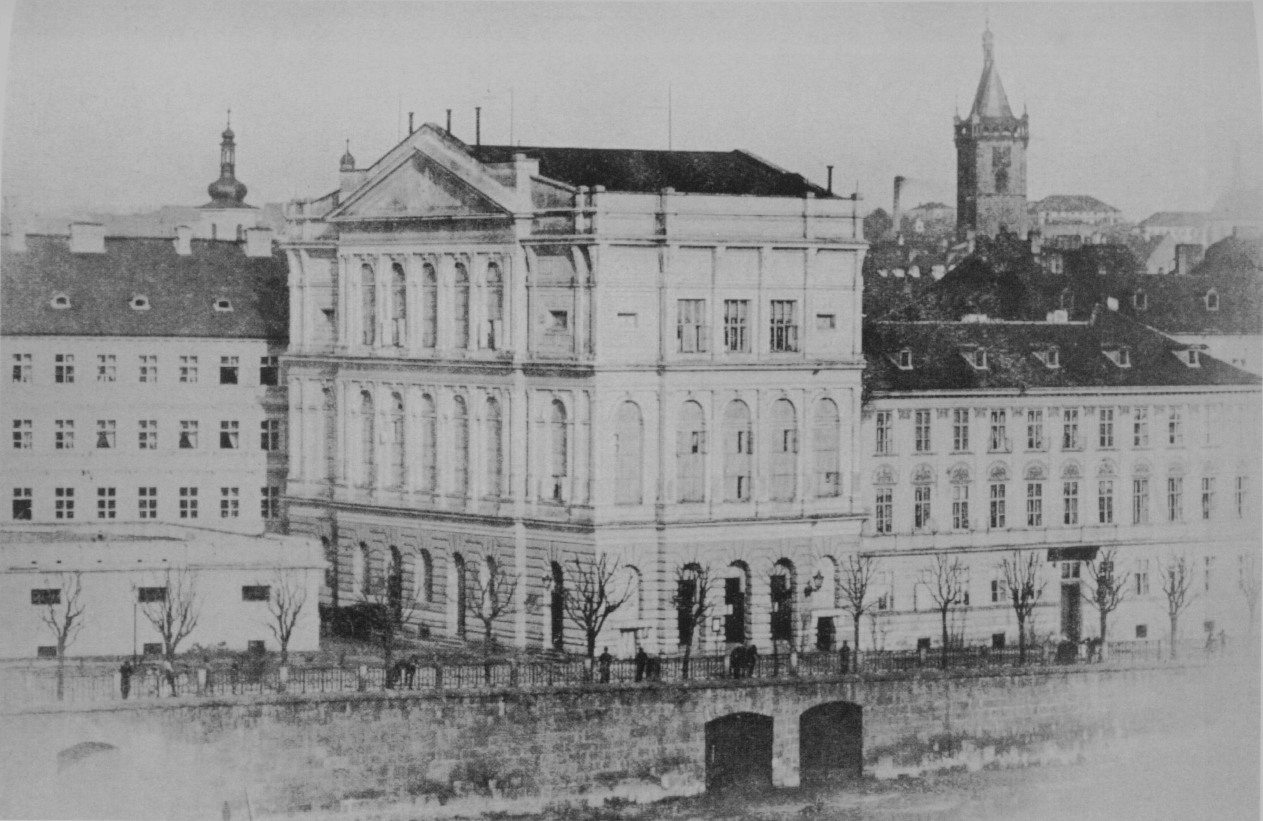 Provisional Theatre in Prague, Czech Republic